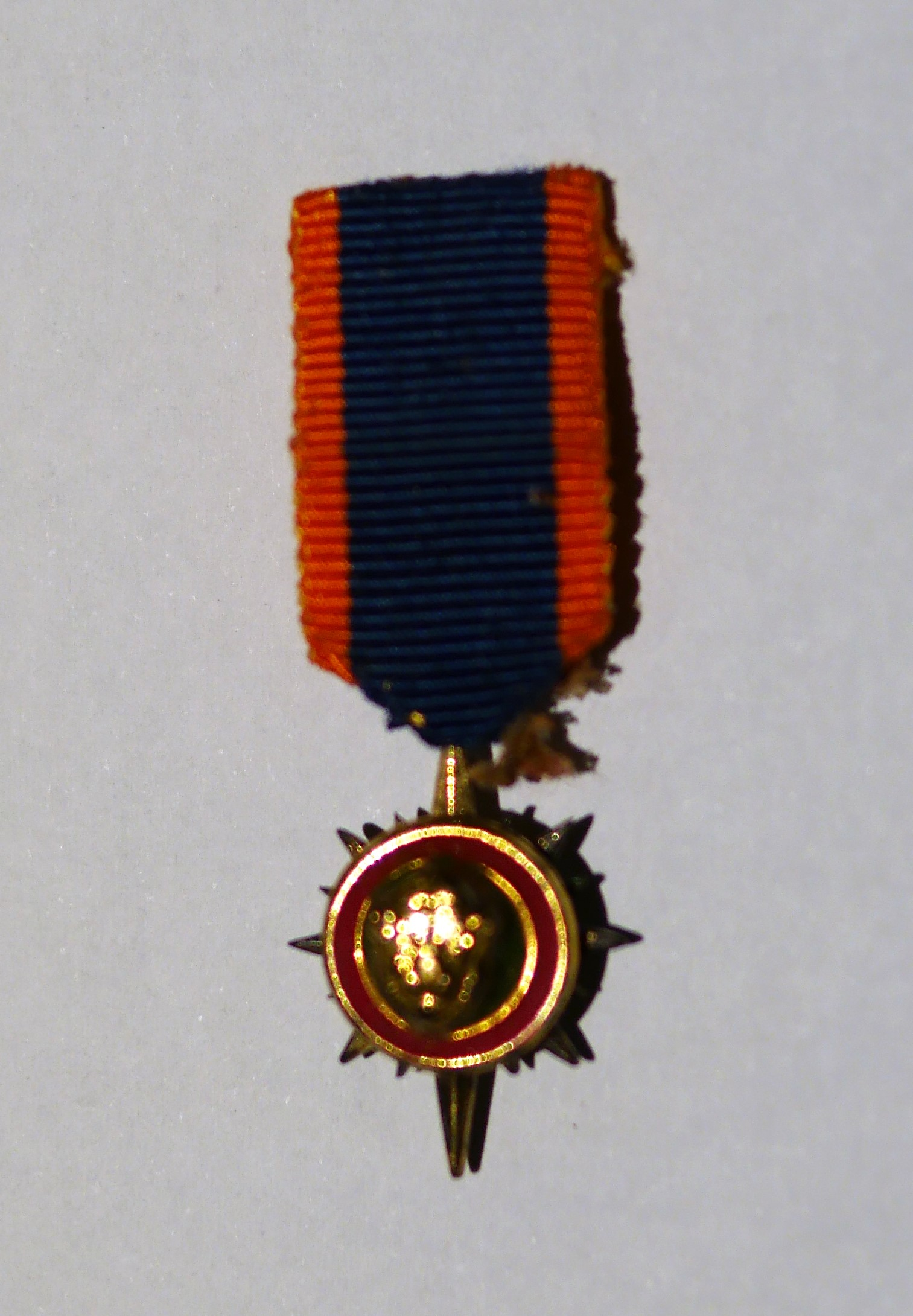 Image of the Miniature of the Order of the Leopard